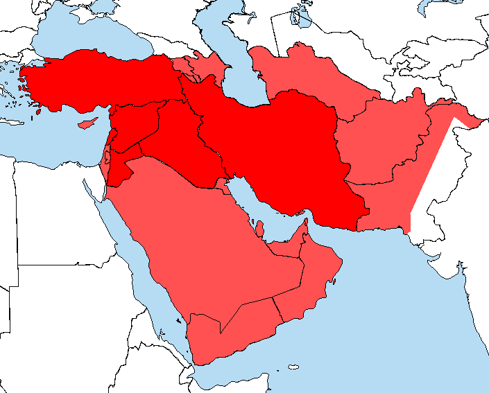 Archaeology range of the Ancient Near East.